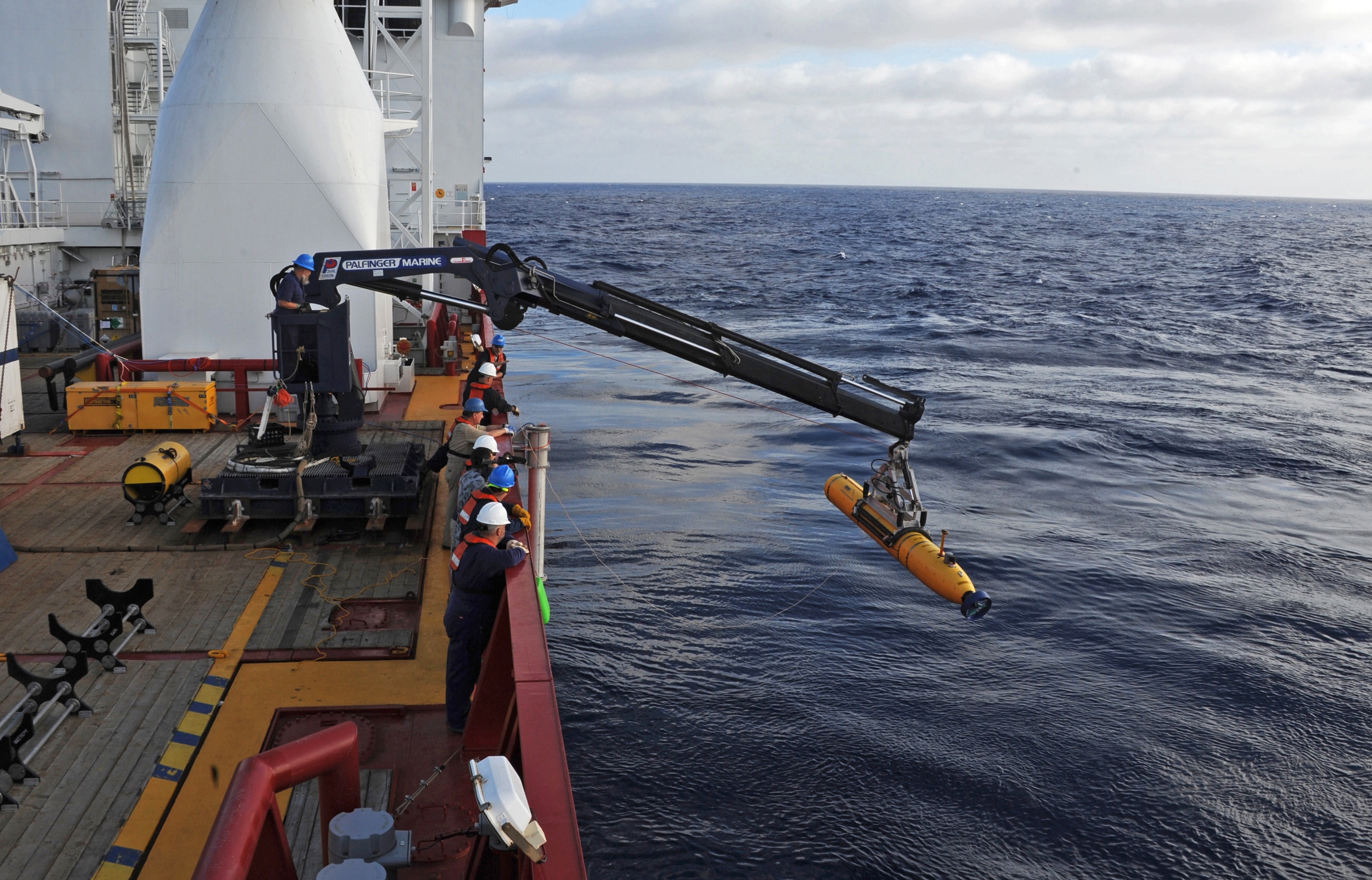 INDIAN OCEAN (April 14, 2014) Operators aboard Australian navy vessel Ocean Shield move the U.S. Navy’s Bluefin 21 Artemis autonomous underwater vehicle into position for deployment. Using side scan sonar, the Bluefin will descend to a depth of between 4,000 and 4,500 meters, approximately 35 meters above the ocean floor. Joint Task Force 658 is currently supporting Operation Southern Indian Ocean, searching for the missing Malaysia Airlines Flight 370. (U.S. Navy photo by Mass Communication Specialist 1st Class Peter D. Blair/Released) Virin: 140414-N-OV358-042